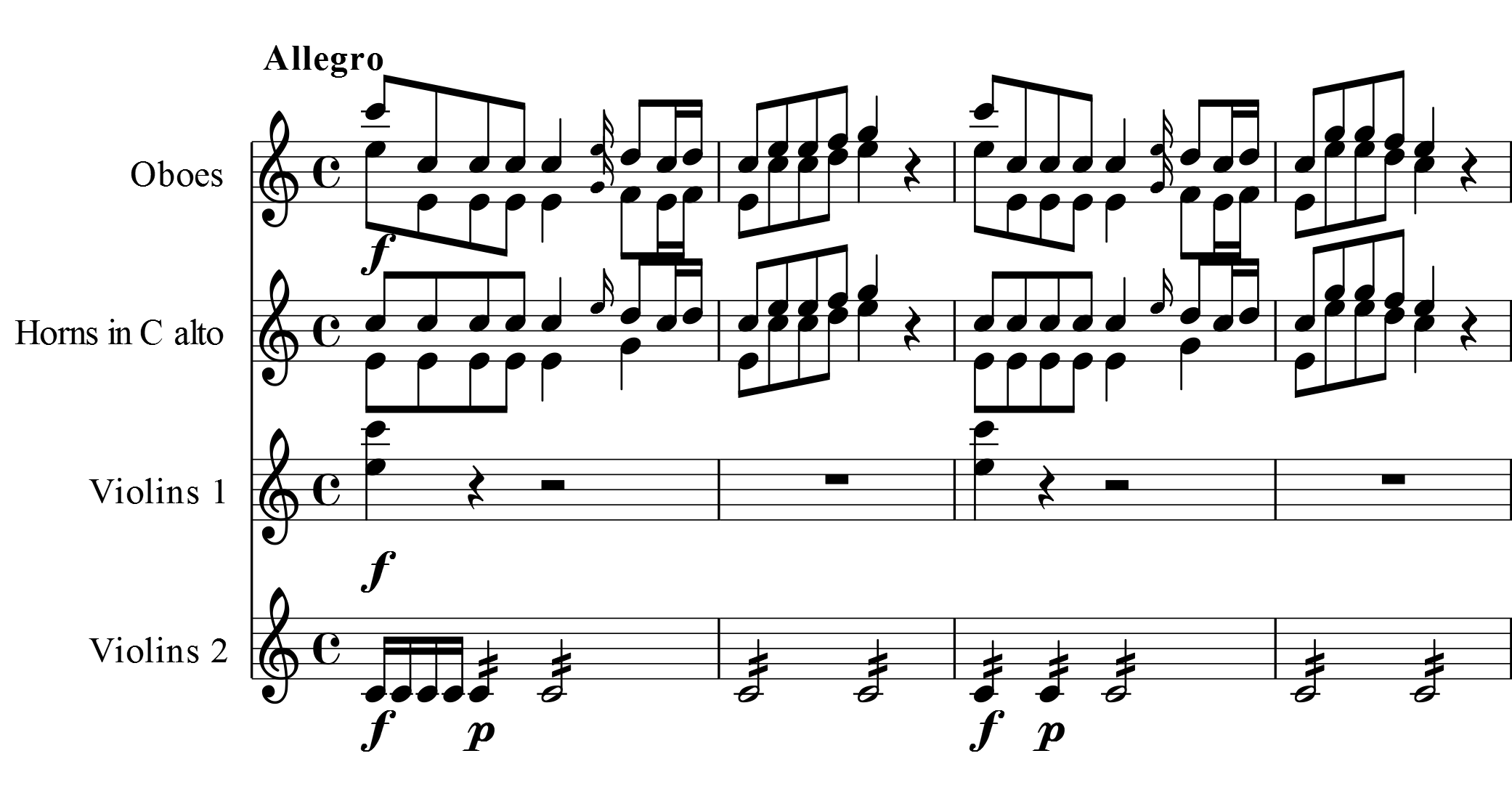 Joseph Haydn, Symphony No. 48, first movement, bar 1-4